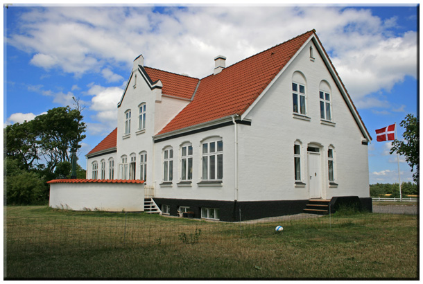 Kirkeby Farm, Humlum Parish in the Struer Municipality, Denmark